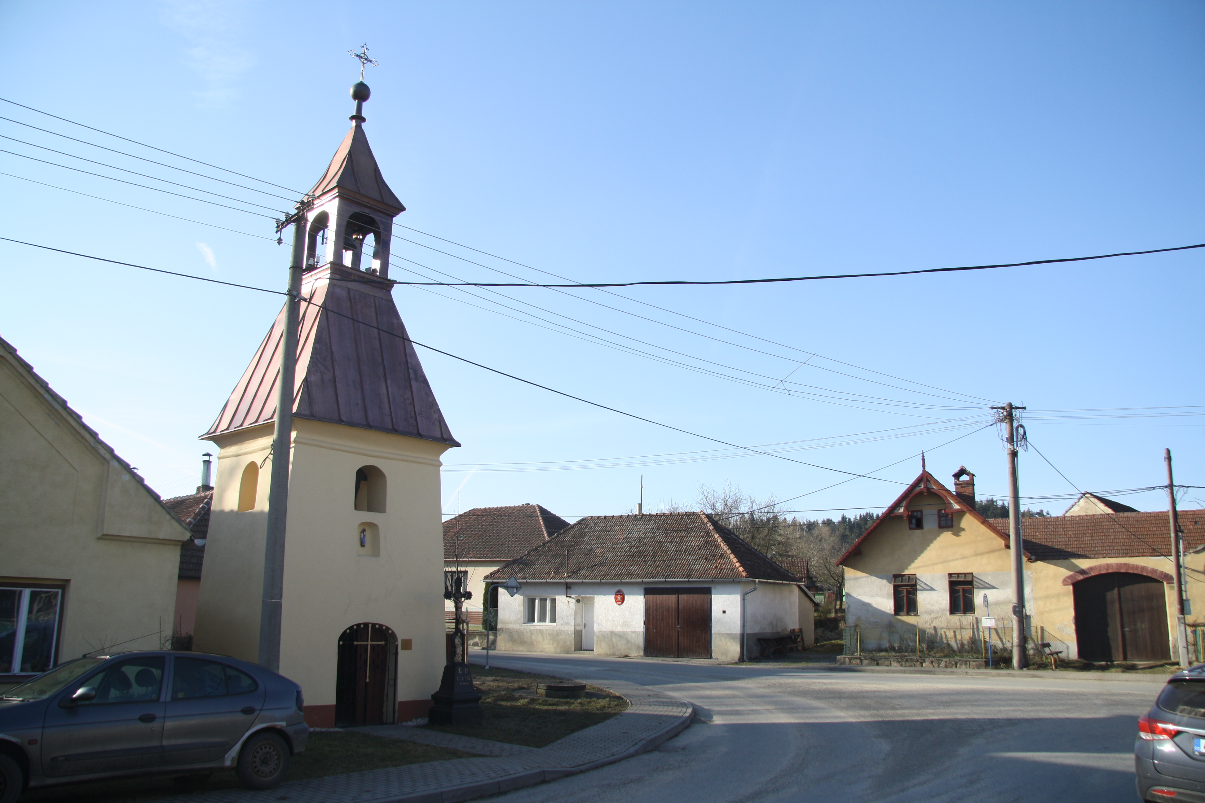 Center of Bochovice, Třebíč District.